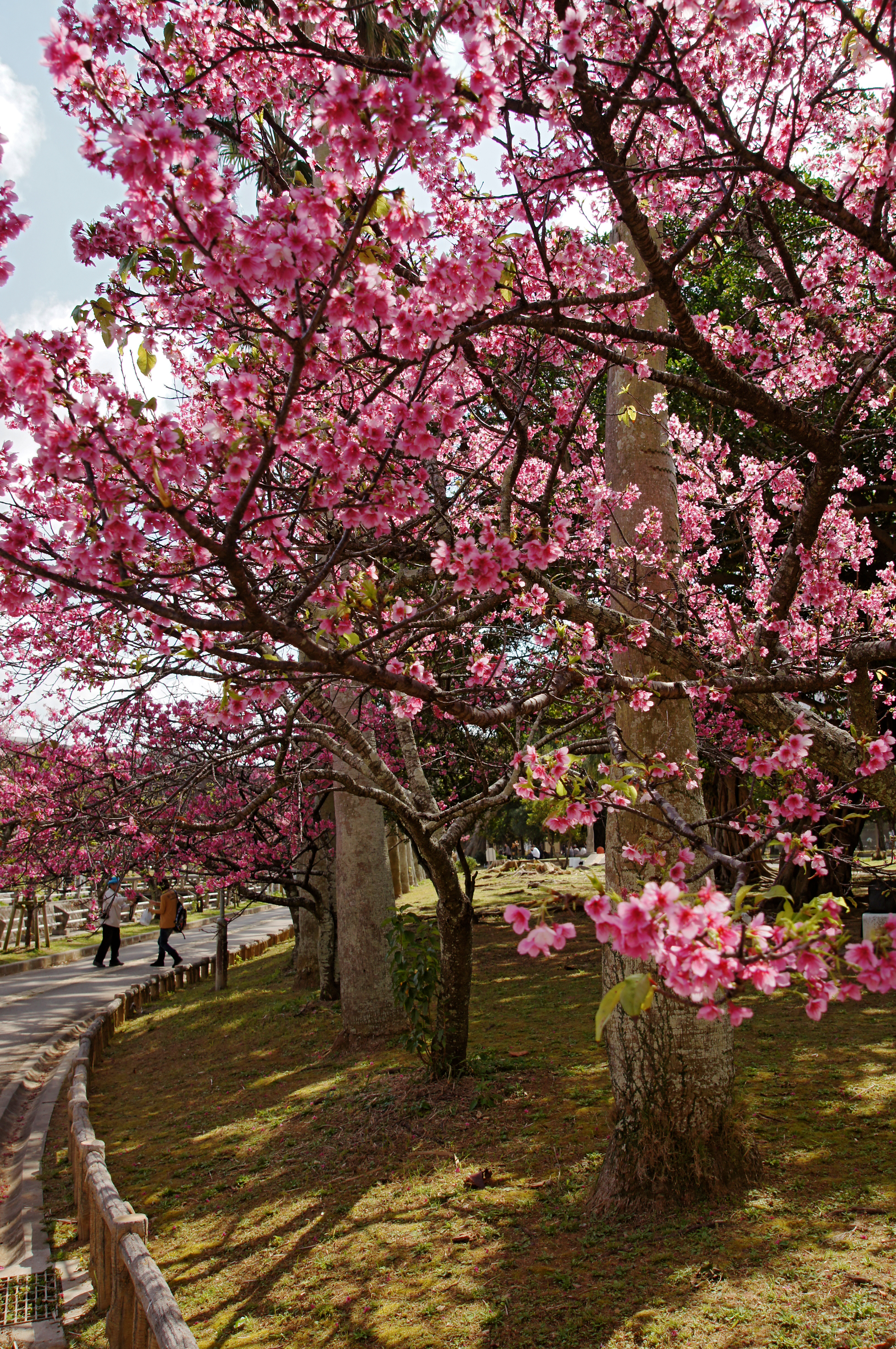 Yogi Park, Naha, Okinawa prefecture, Japan